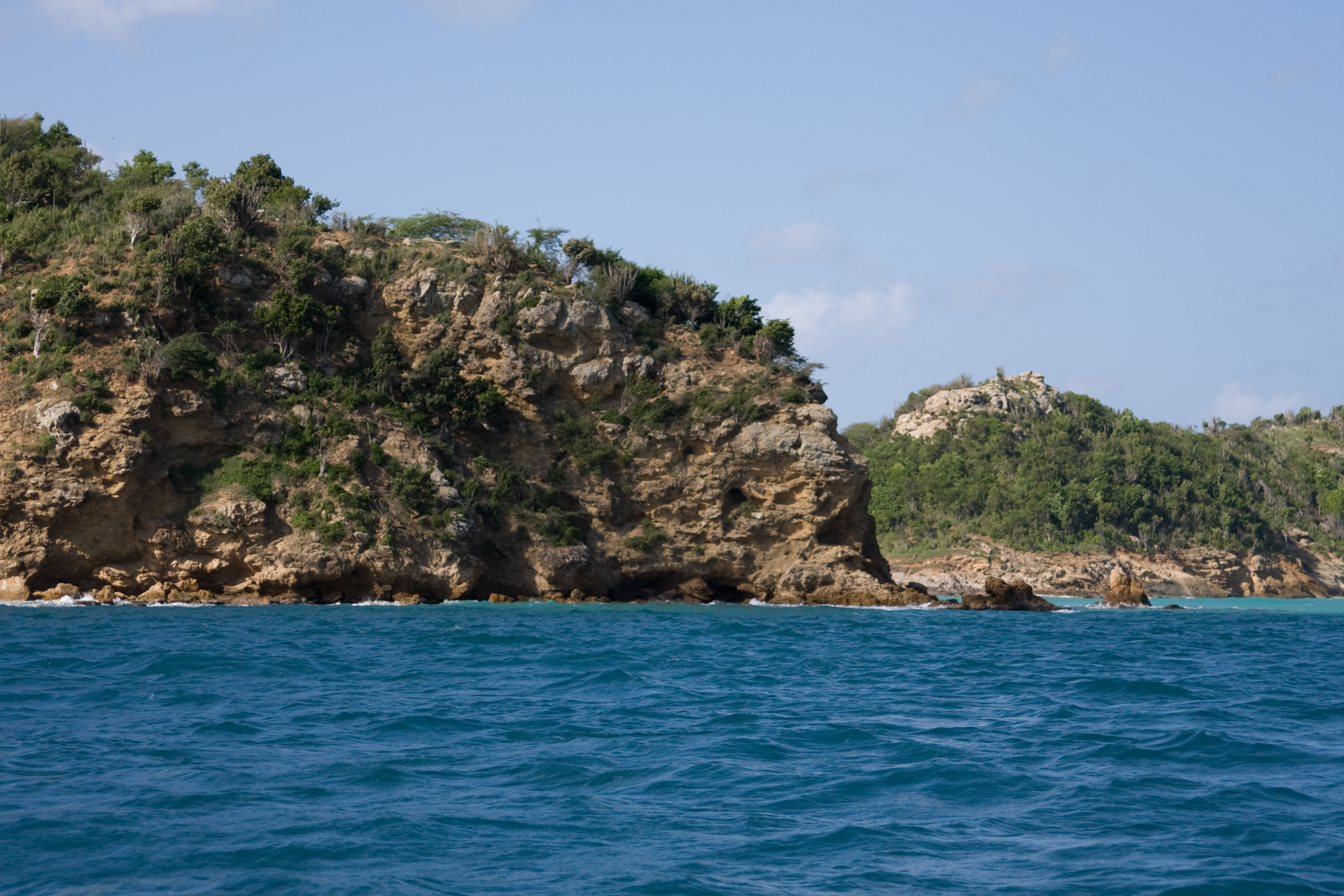 Typical rocky shoreline, Antigua (near St. John's)